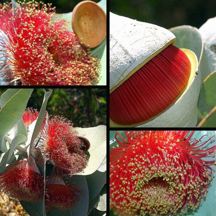 Eucalyptus macrocarpa One rather thin branch held multiple flowers.